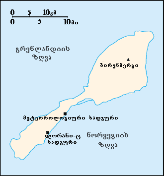 map of Jan Mayen